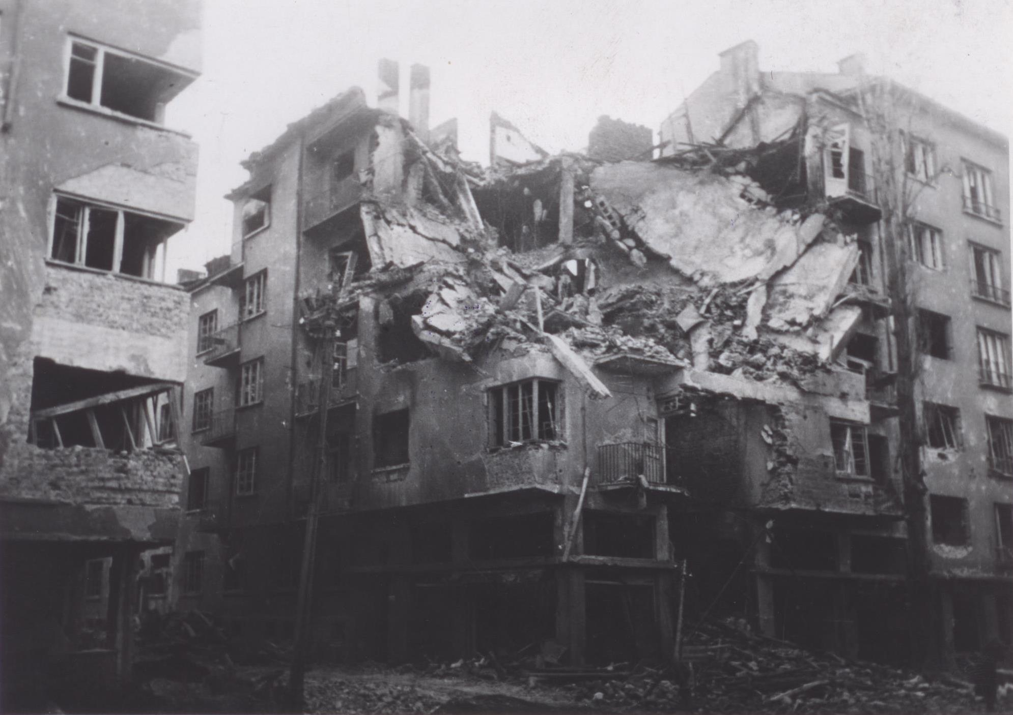 Sofia Bombings 1944: Damaged building on Ferdinand Blvd.